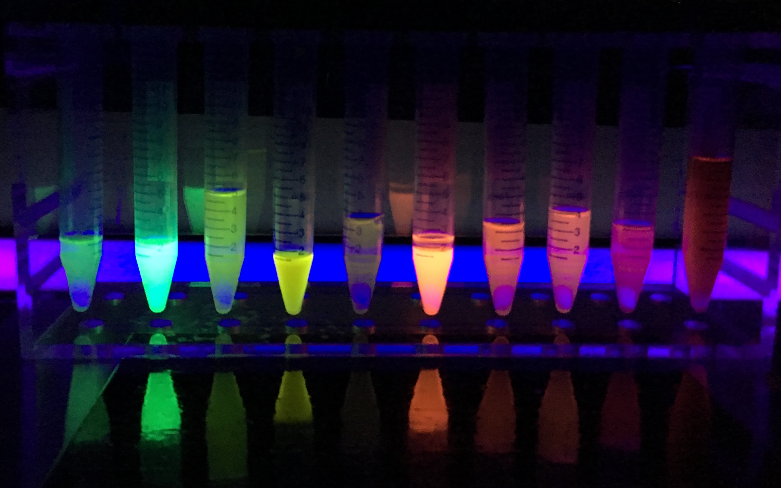 Fluorescence from fluorescent proteins excited with UV light. Picture taken by Erik A. Rodriguez.